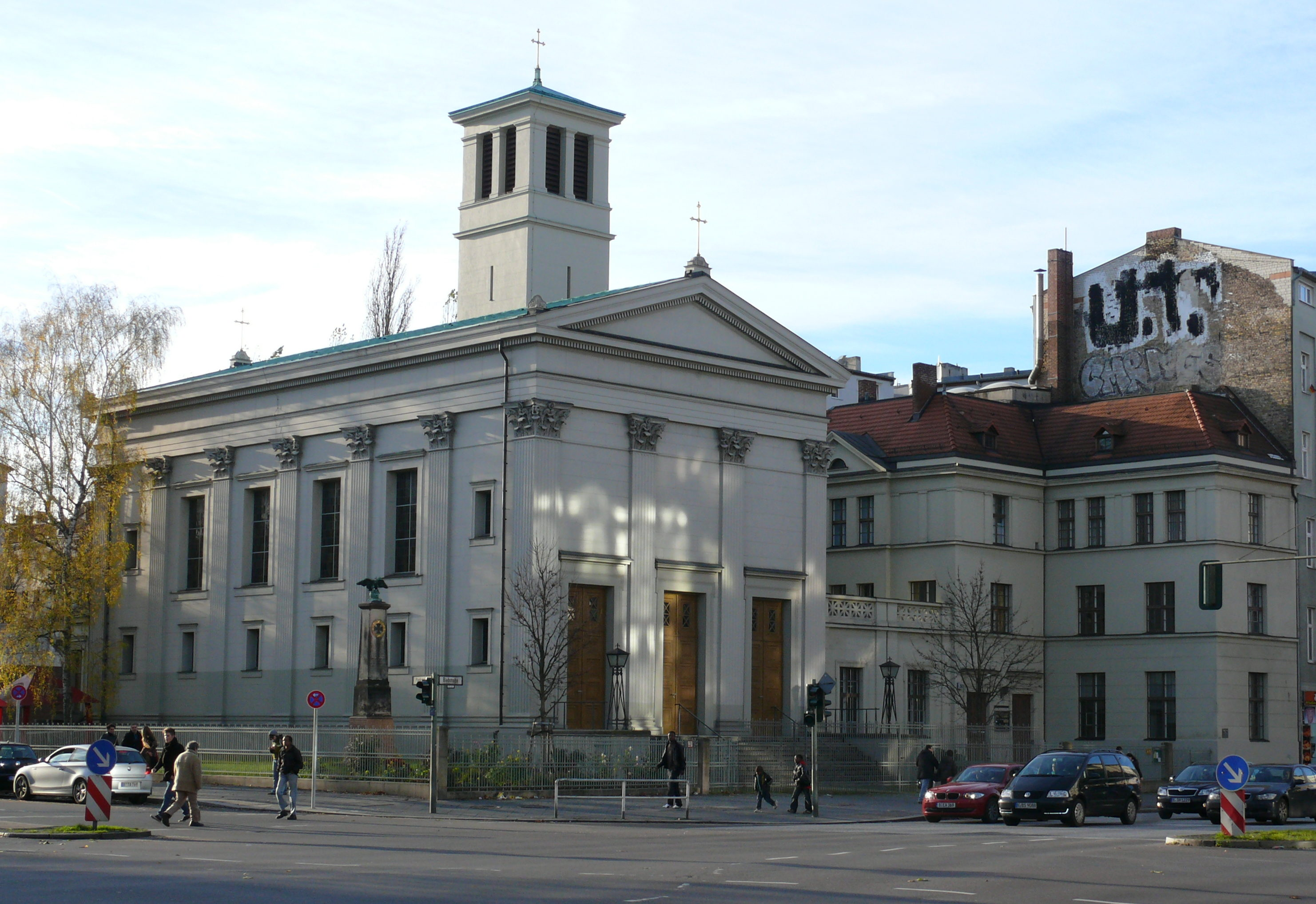 Berlin-Gesundbrunnen St. Paulskirche at Badstraße